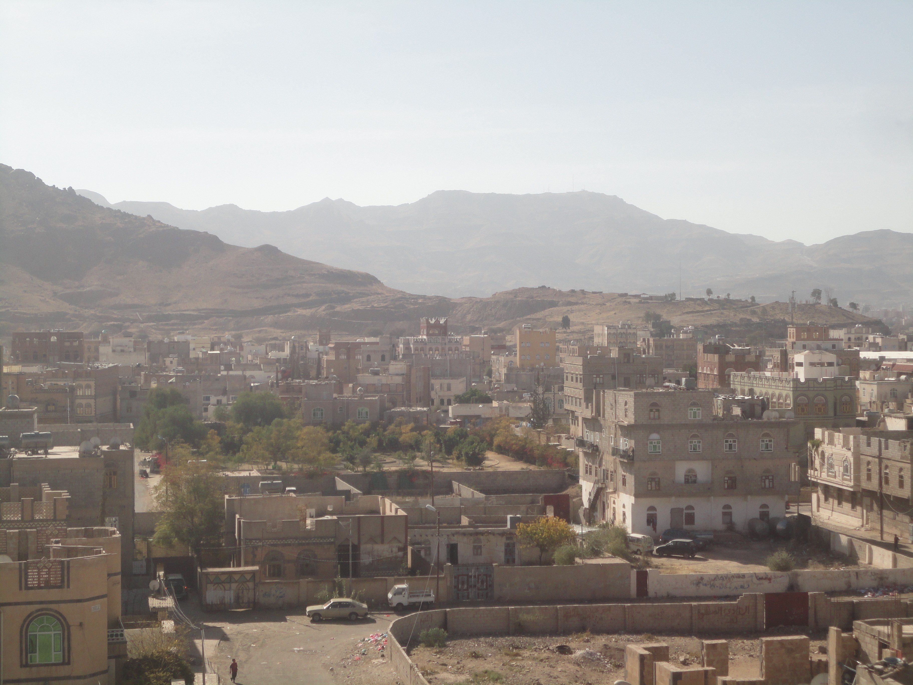 Al-Qadisiyyah Park. Note that Jabal An-Nabi Shu'ayb, the highest mountain in Yemen and the Arabian Peninsula, is behind the mountain in the background, facing west of southern San'a'.